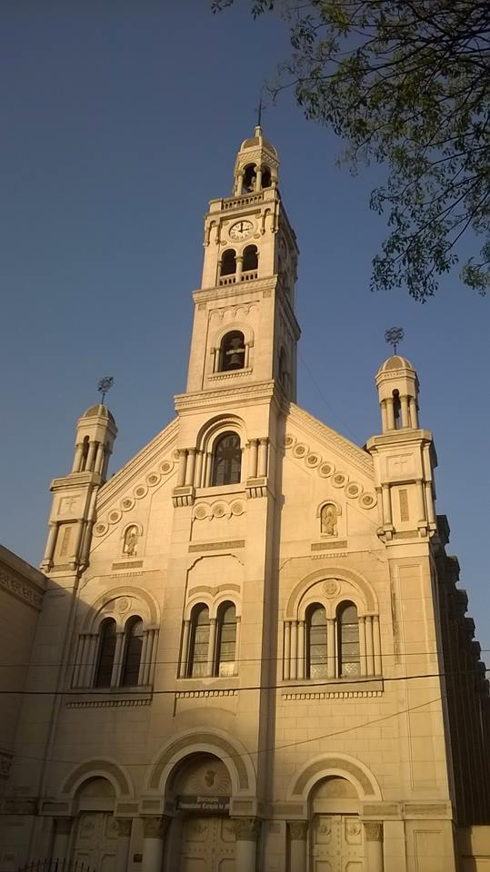 Parrroquia Inmaculado Corazón de María. Zelarrayán 741, Bahía Blanca.